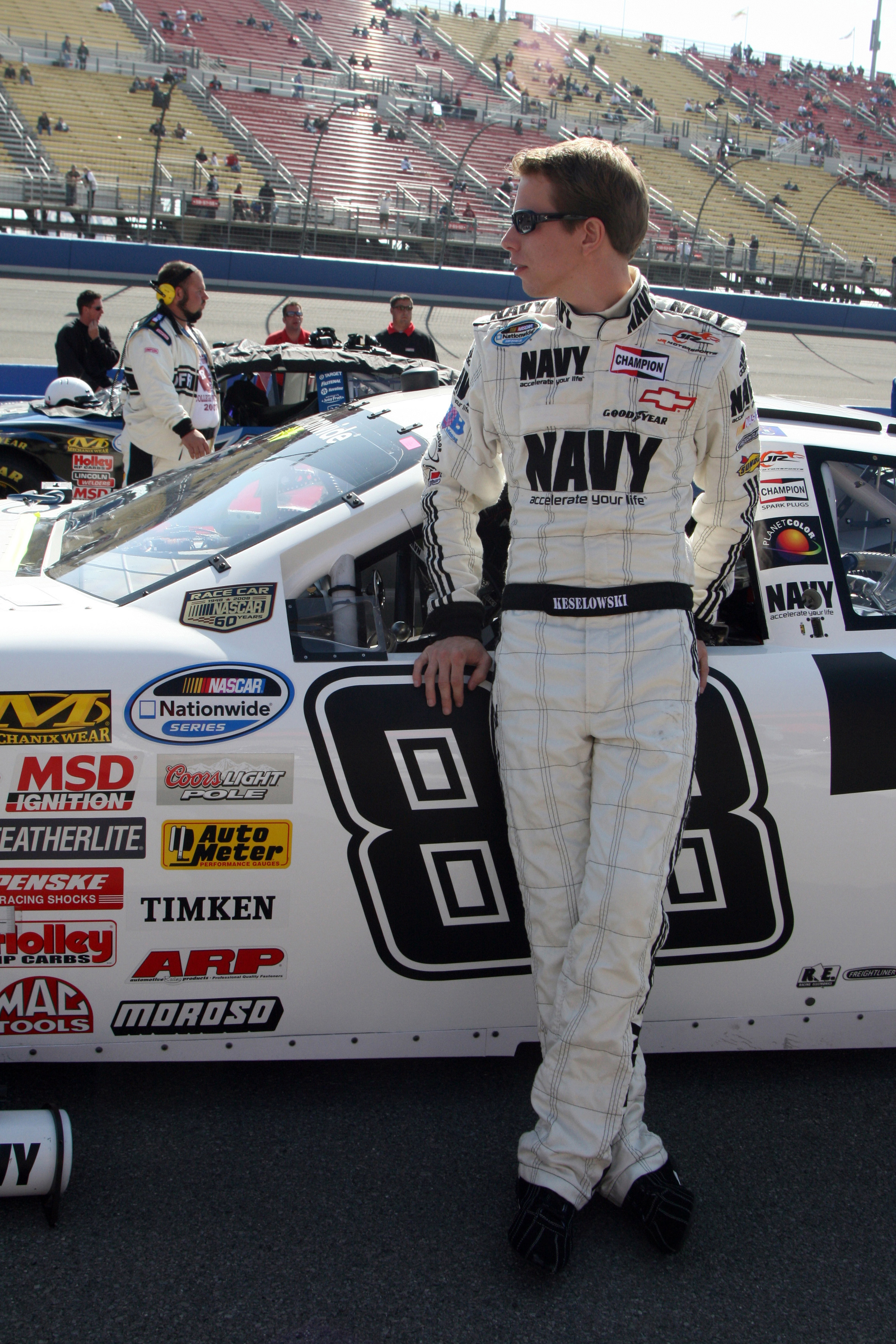 NASCAR driver Brad Keselowski stands next to the No. 88 Navy Accelerate Your Life Monte Carlo vehicle prior to the beginning of the Stater Brothers 300 race at California Speedway in Fontana, Calif., Feb. 25, 2008. A late-race transmission failure relega ted Keselowski to 32nd in the race.